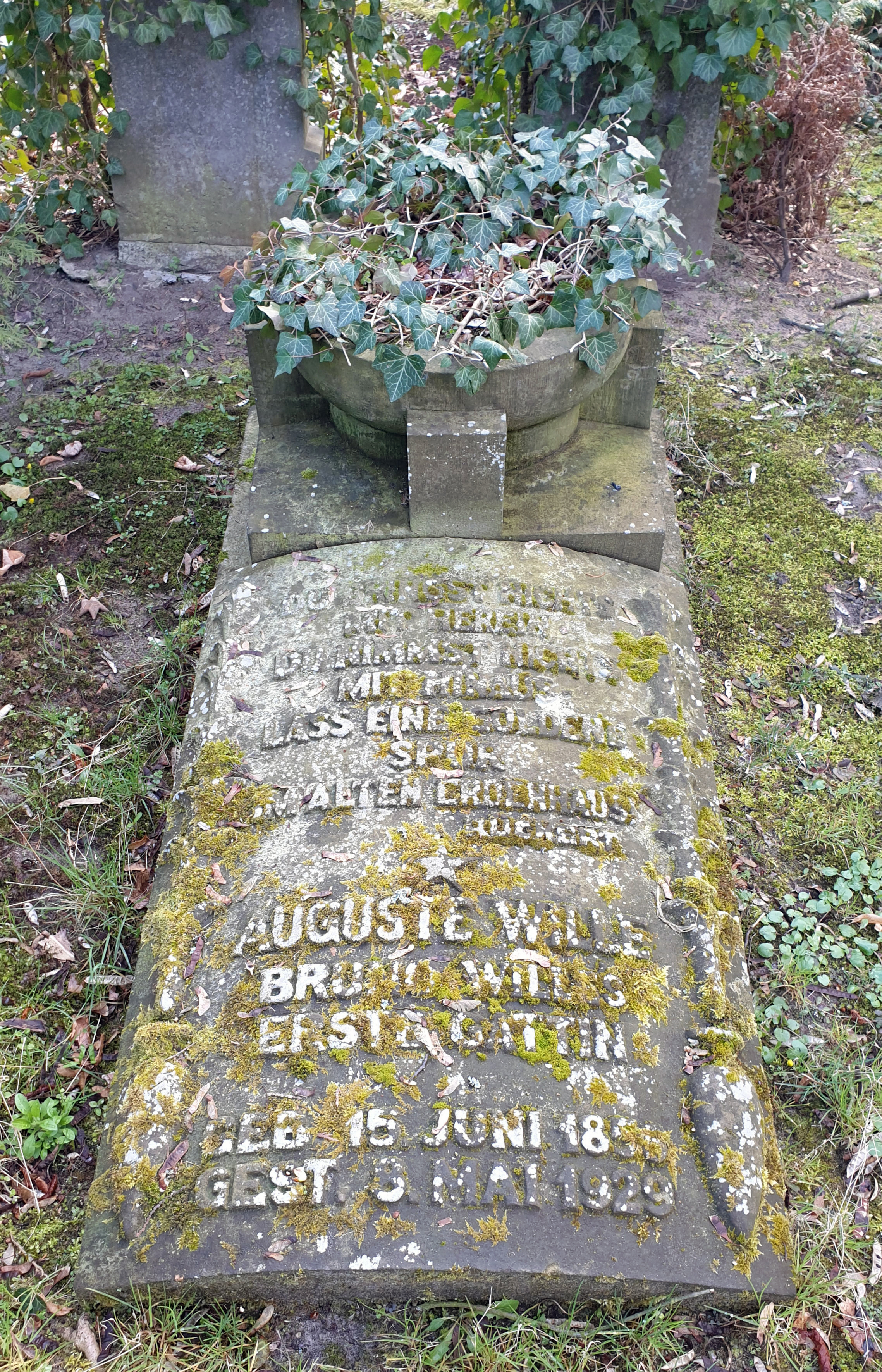 Grave, Auguste Wille, Aßmannstraße 12, Berlin-Friedrichshagen, Germany